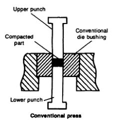 Unidirecional